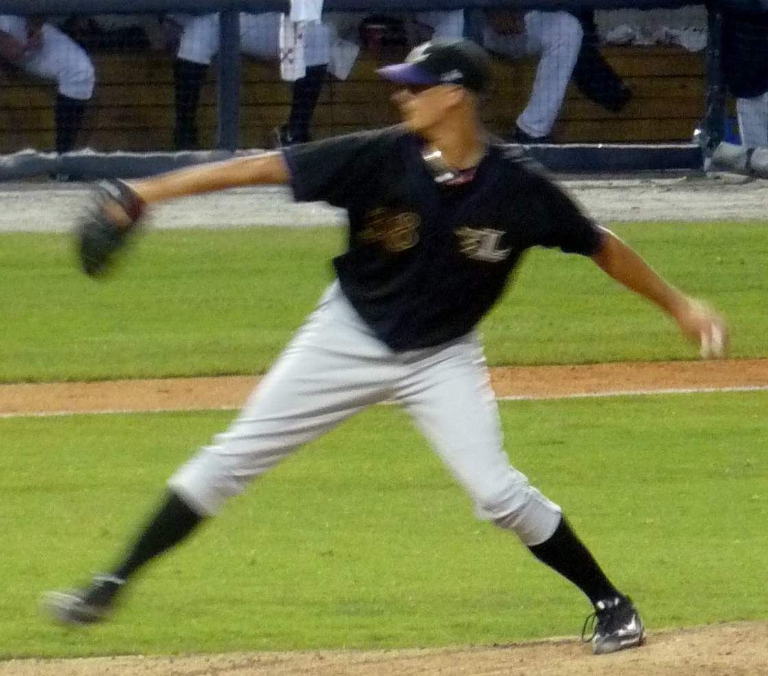 Ben Jukich delivers a pitch for the Louisville Bats during a 2009 game at Gwinnett Stadium in Gwinnett, Georgia